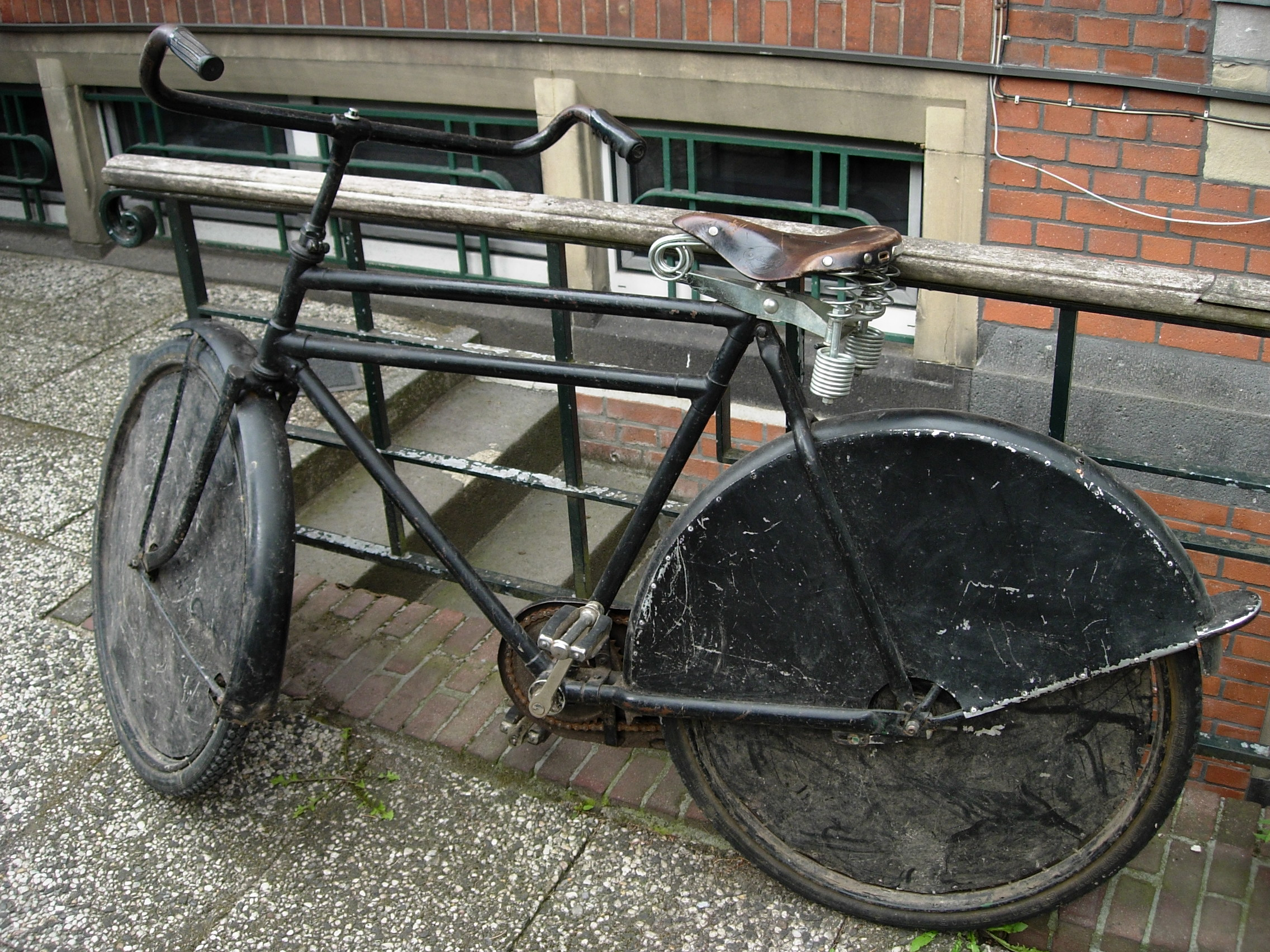 jaw-dropping transportfiets. Bicycle saddle Primus 215 Men’s manufactured by Lepper.